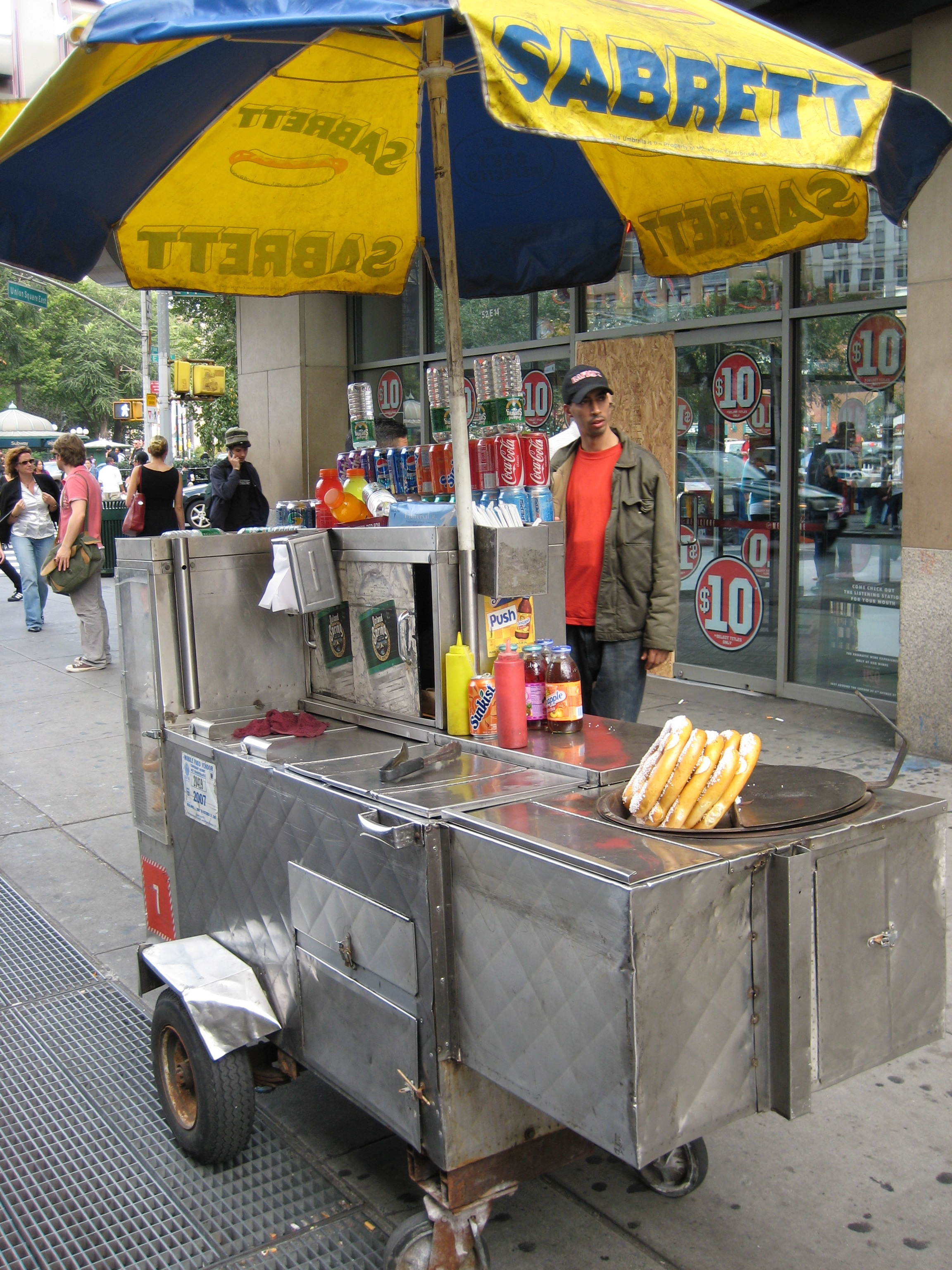 Hot dog cart on East 16th Street in New York City